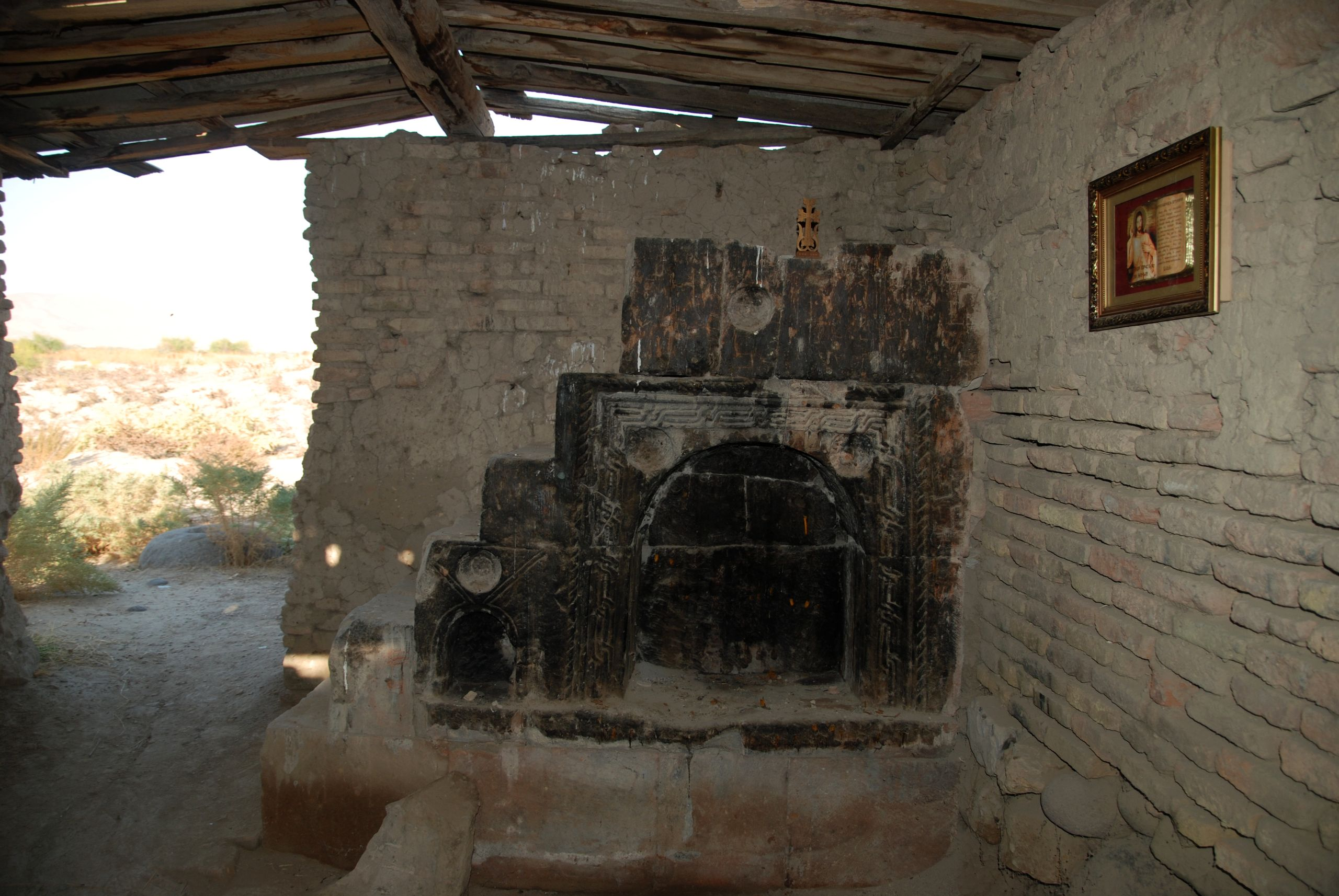 Dvin, shrine in site of the ancient city